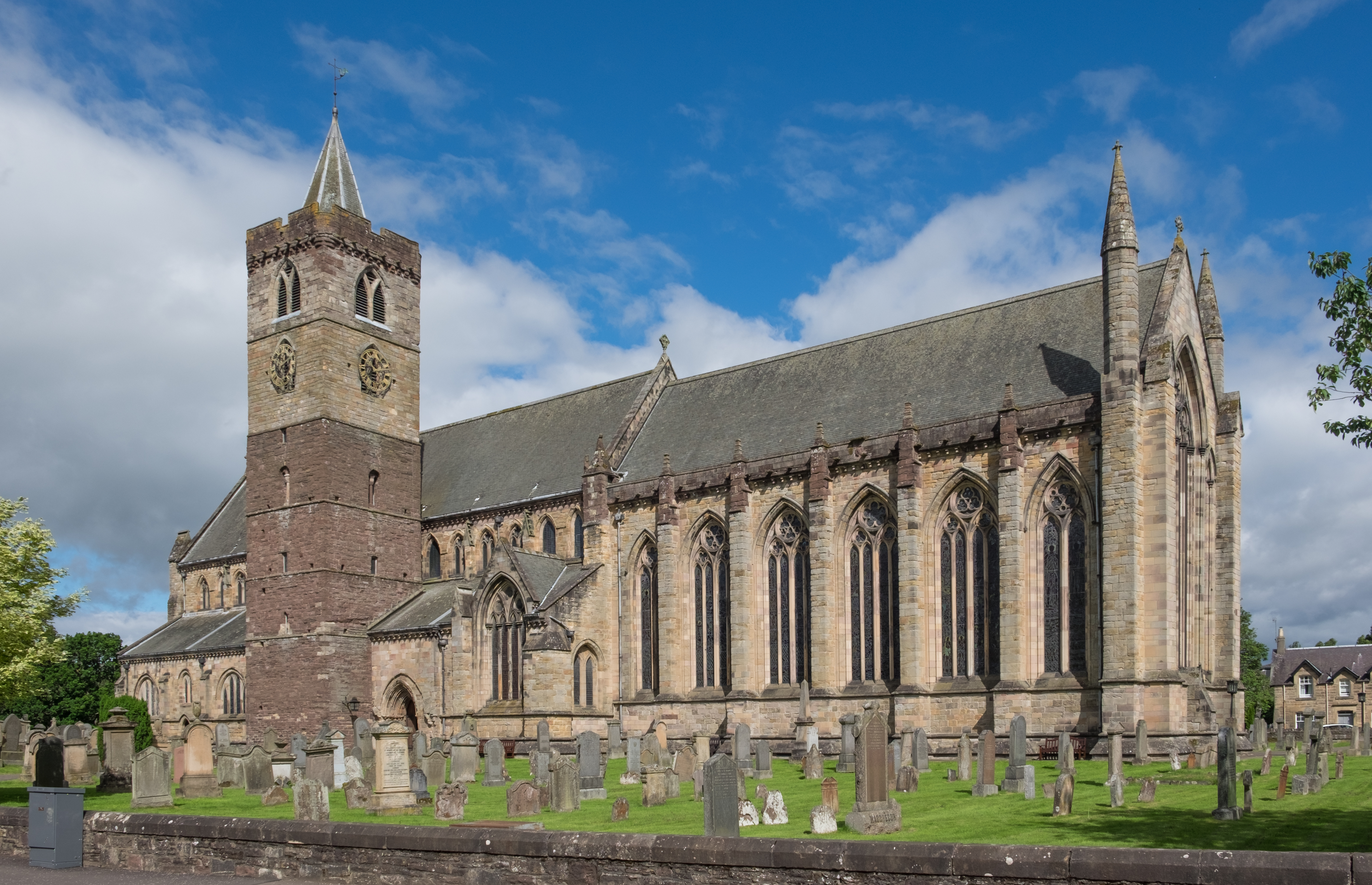 Dunblane Cathedral. This mainly 13th century building is a category A listed building in Scotland.